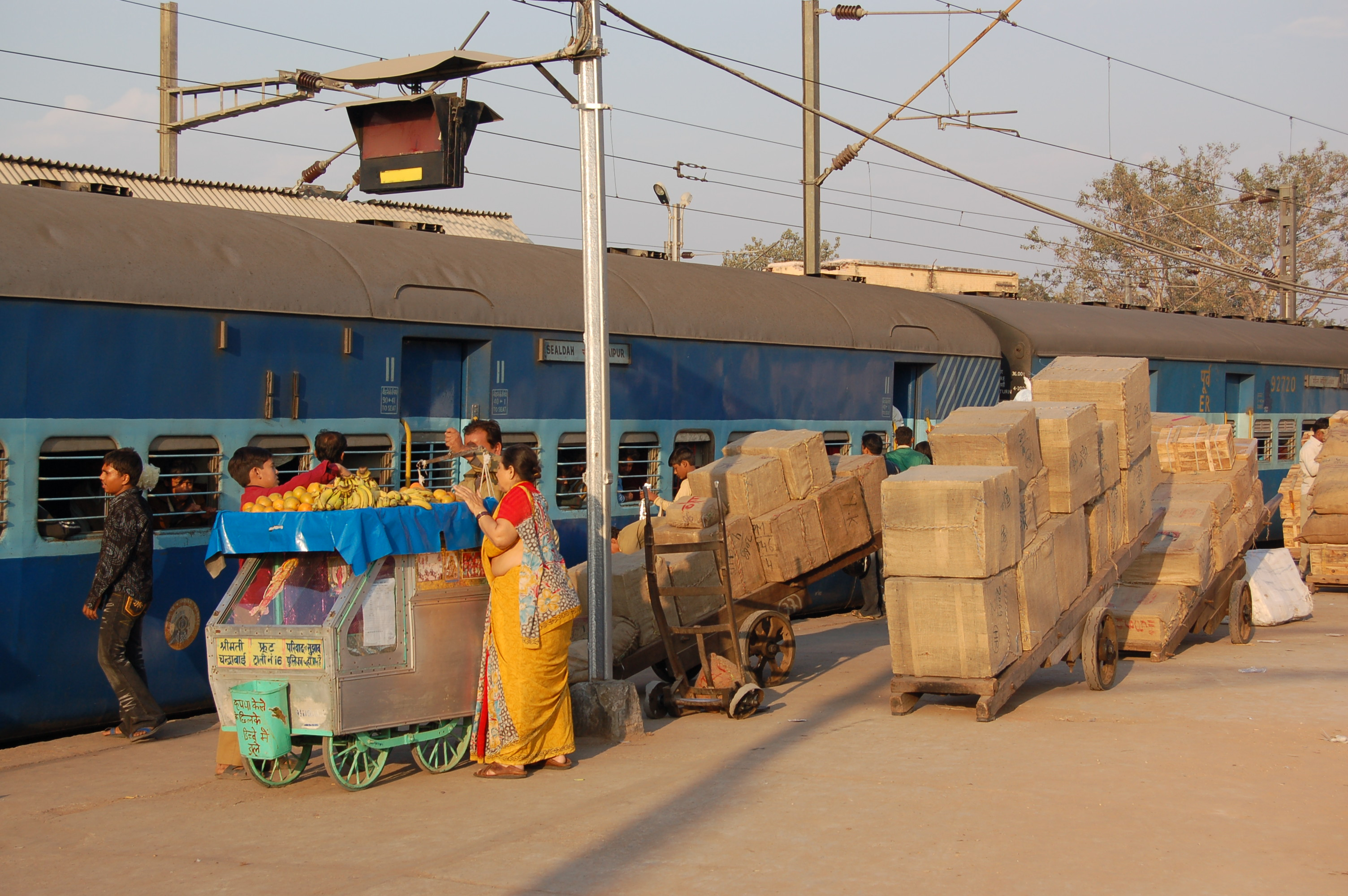 A platform scene at Agra Fort railway station (Indian Railways station code AF) in Agra, India. In the background is train no. 2316 Ananya Express, from Ajmer to Sealdah.